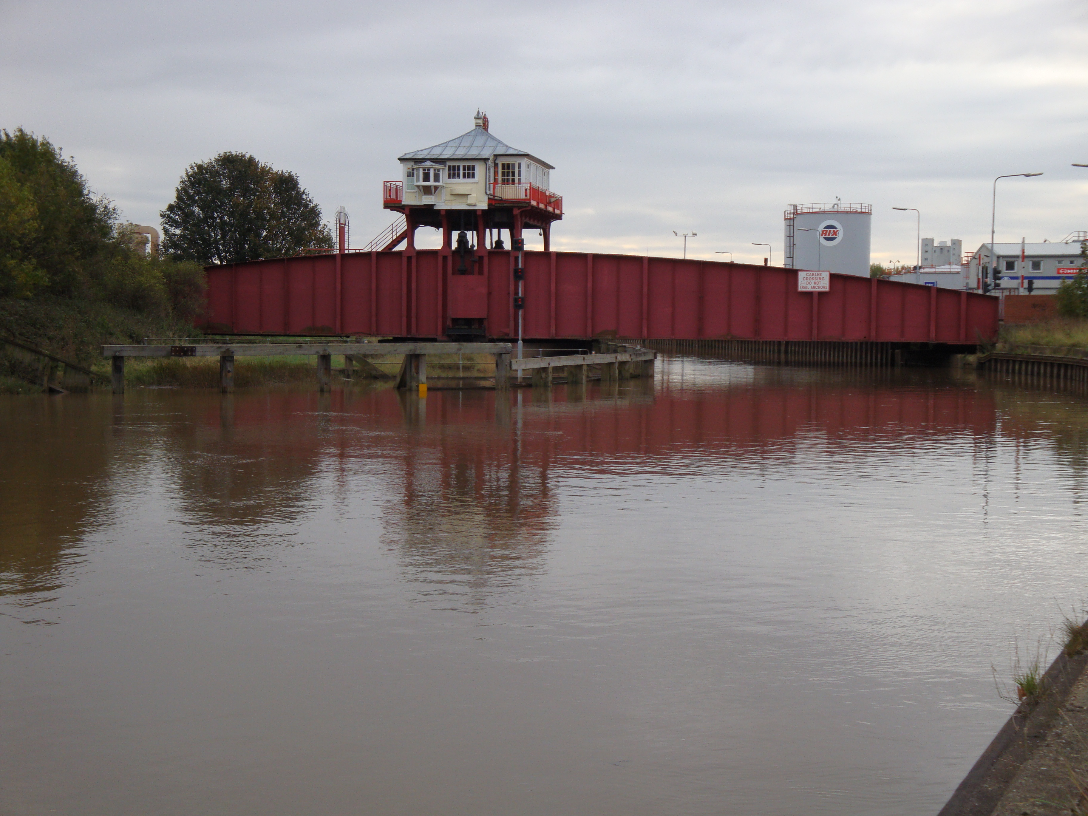 The former North Eastern Railway Bridge at Wilmington, Hull, Humberside, England.Built in 1907 by the NER as a replacement, this bridge ceased to be a rail bridge in 1968; it remains open as a public footbridge - the footpath is now in the center section rather than on the outside upstream.